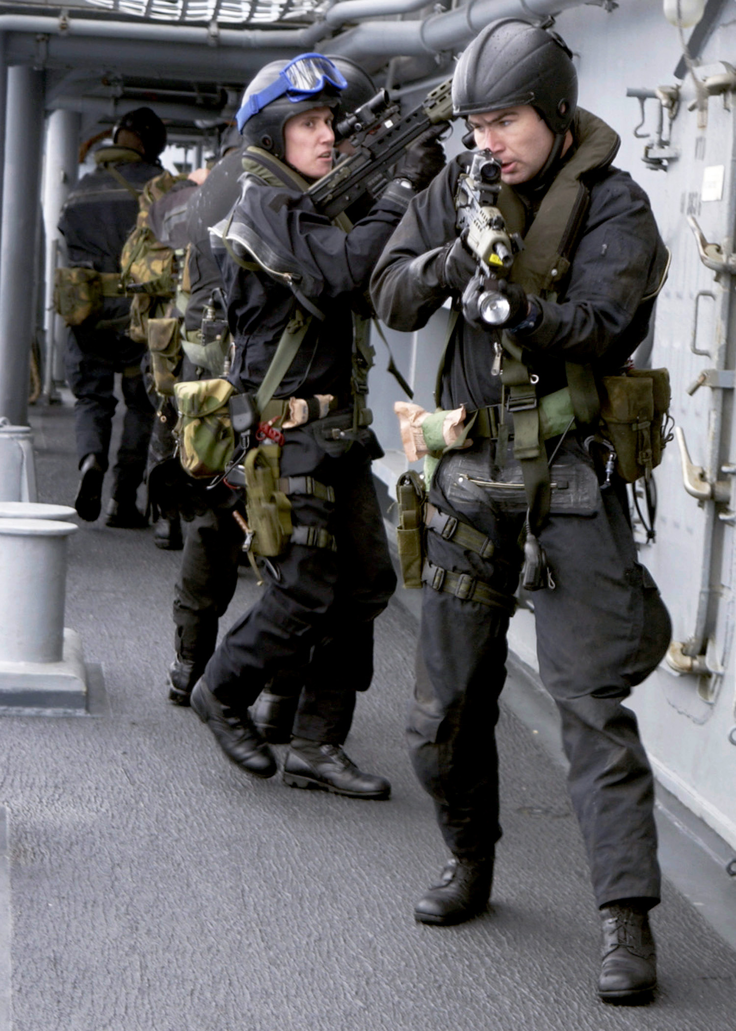 The Pacific Ocean (Jun. 18, 2003) -- A U.K. Royal Marines team, embarked on Chilean ship ACh Ministro Zenteno (PFG 08) board the destroyer USS O'Bannon (DD 987) during a Maritime Interdiction Operation (MIO) training evolution. O'Bannon and Ministro Zenteno are among 19 ships participating in Teamwork South 2003. Teamwork South is a bi-annual multi-national exercise hosted by the Chilean Navy and conducted in Chilean territorial waters to further bolster a robust relationship and mutual understanding in the region. It offers a unique opportunity to maintain a consistent training environment in the region as well as a continued multi-national commitment to hemispheric defense and coalition. U.S. Navy photo by Photographer's Mate 1st Class Marthaellen L. Ball. (RELEASED)